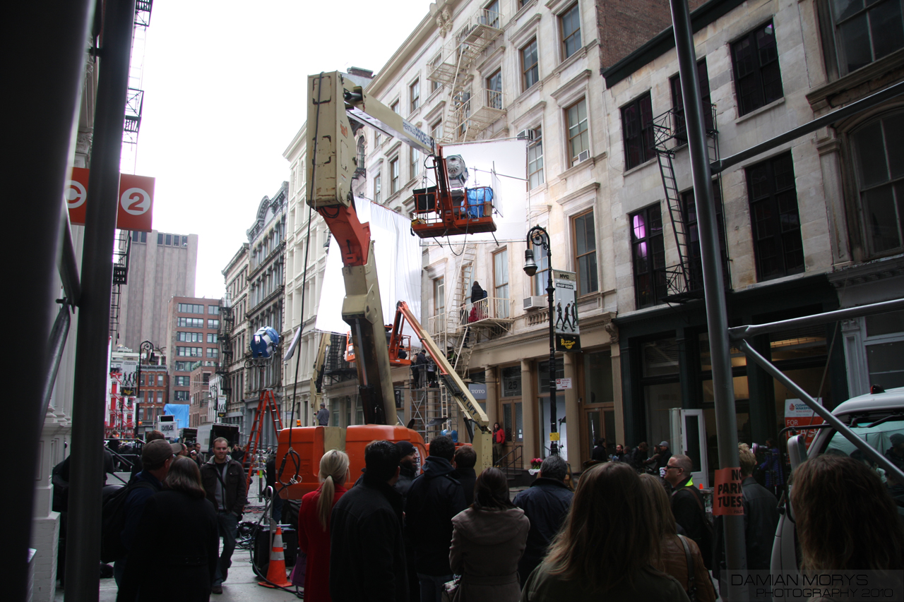 Commercial being shot in Soho.